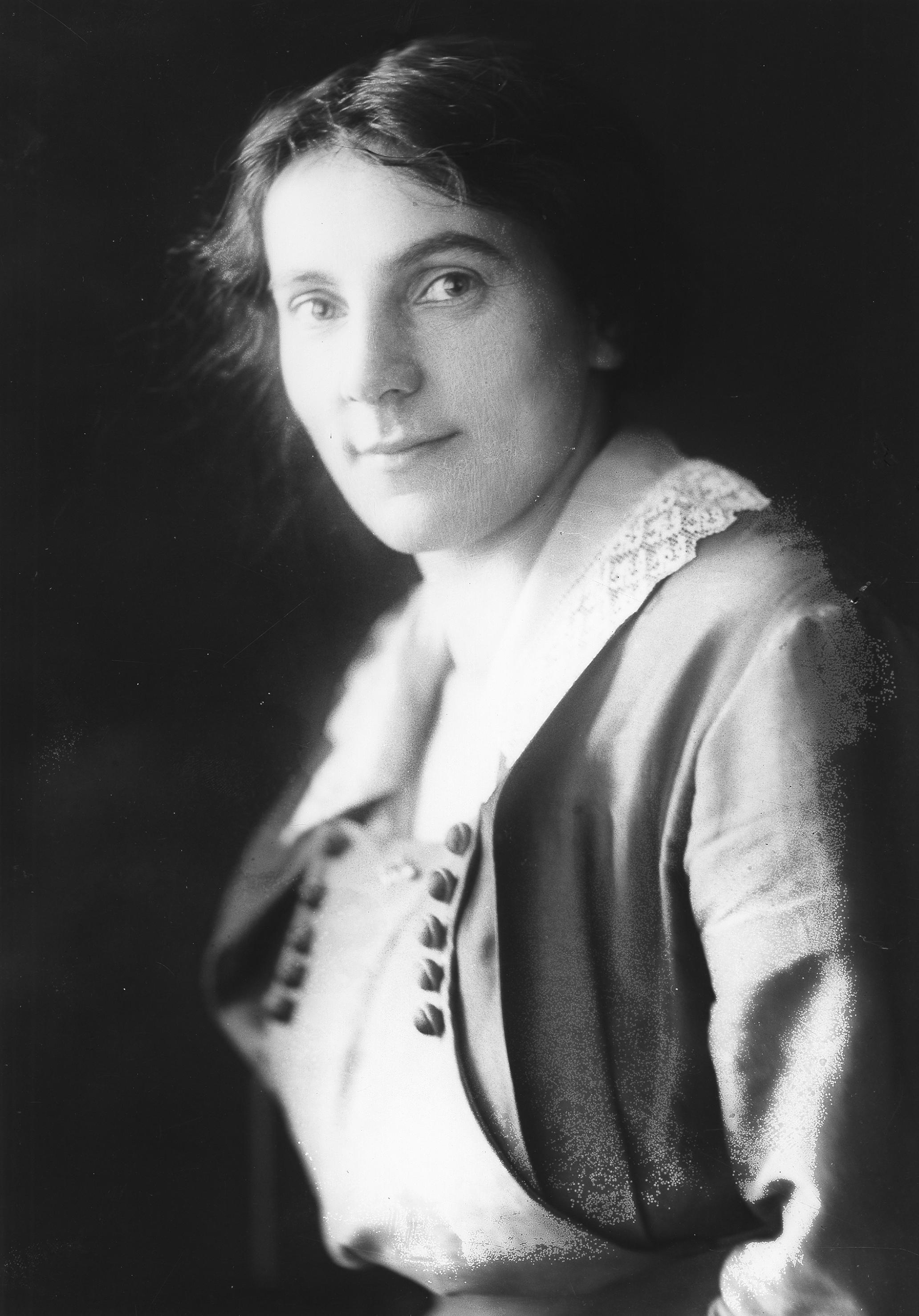 ca. 1920. From the Gladys Reeves fonds, PR1974.0173/602.